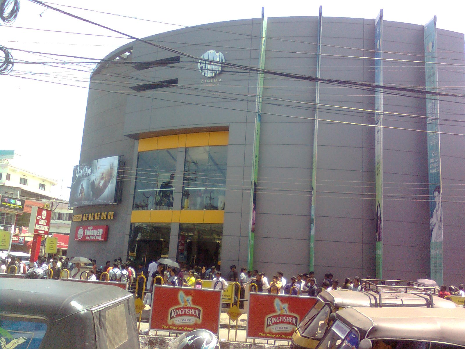 Padma Cinemas, Kochi